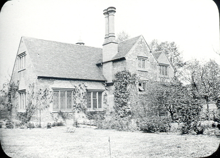 Hertford Grammar School by Arthur Elsdon